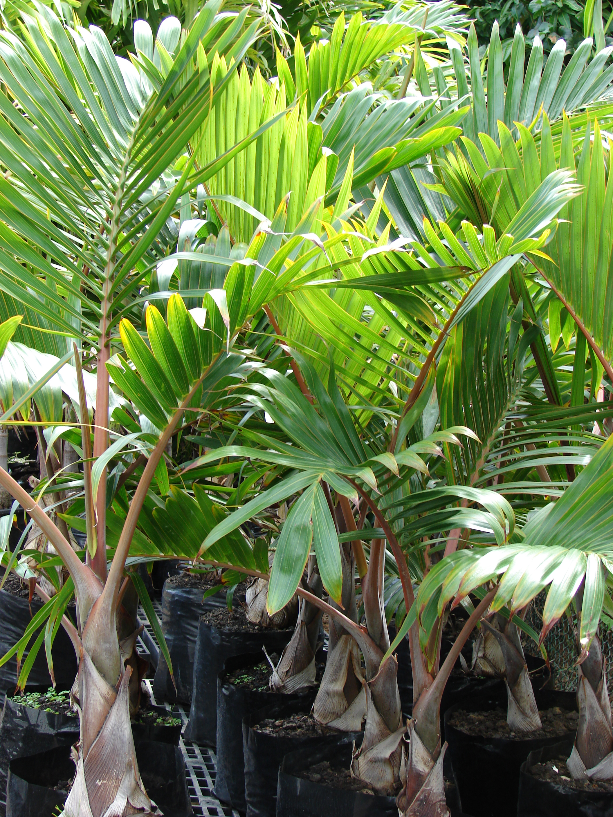 Hyophorbe lagenicaulis (in pots). Location: Maui, County Nursery Kahului